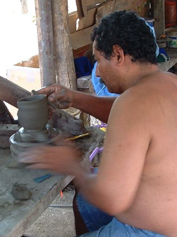 Potter in Guatil, Costa Rica, using a hand-driven potter's wheel.